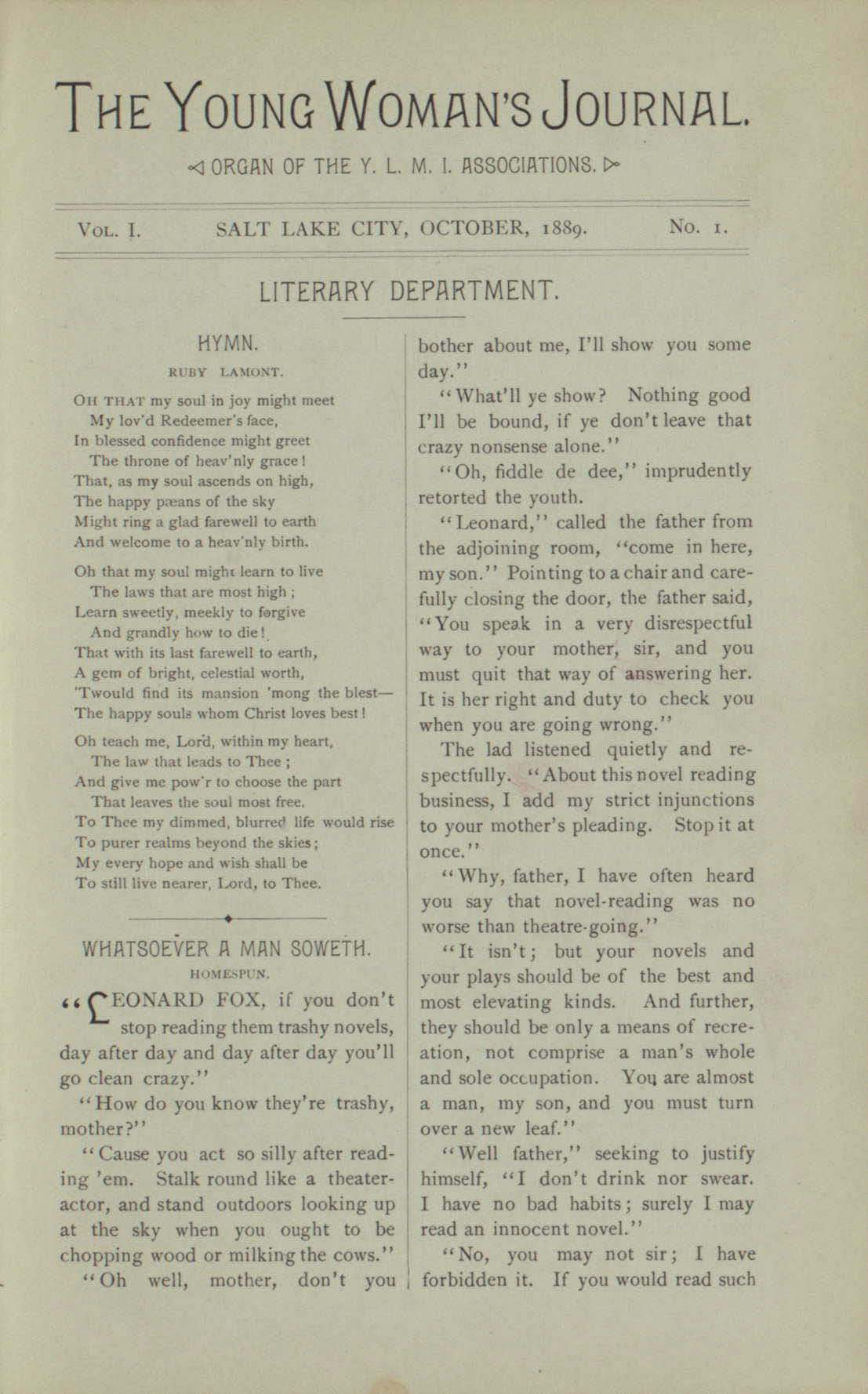 First page of the first issue of the Young Women's Journal of the The Church of Jesus Christ of Latter-day Saints, Salt Lake City, Utah. October, 1889.